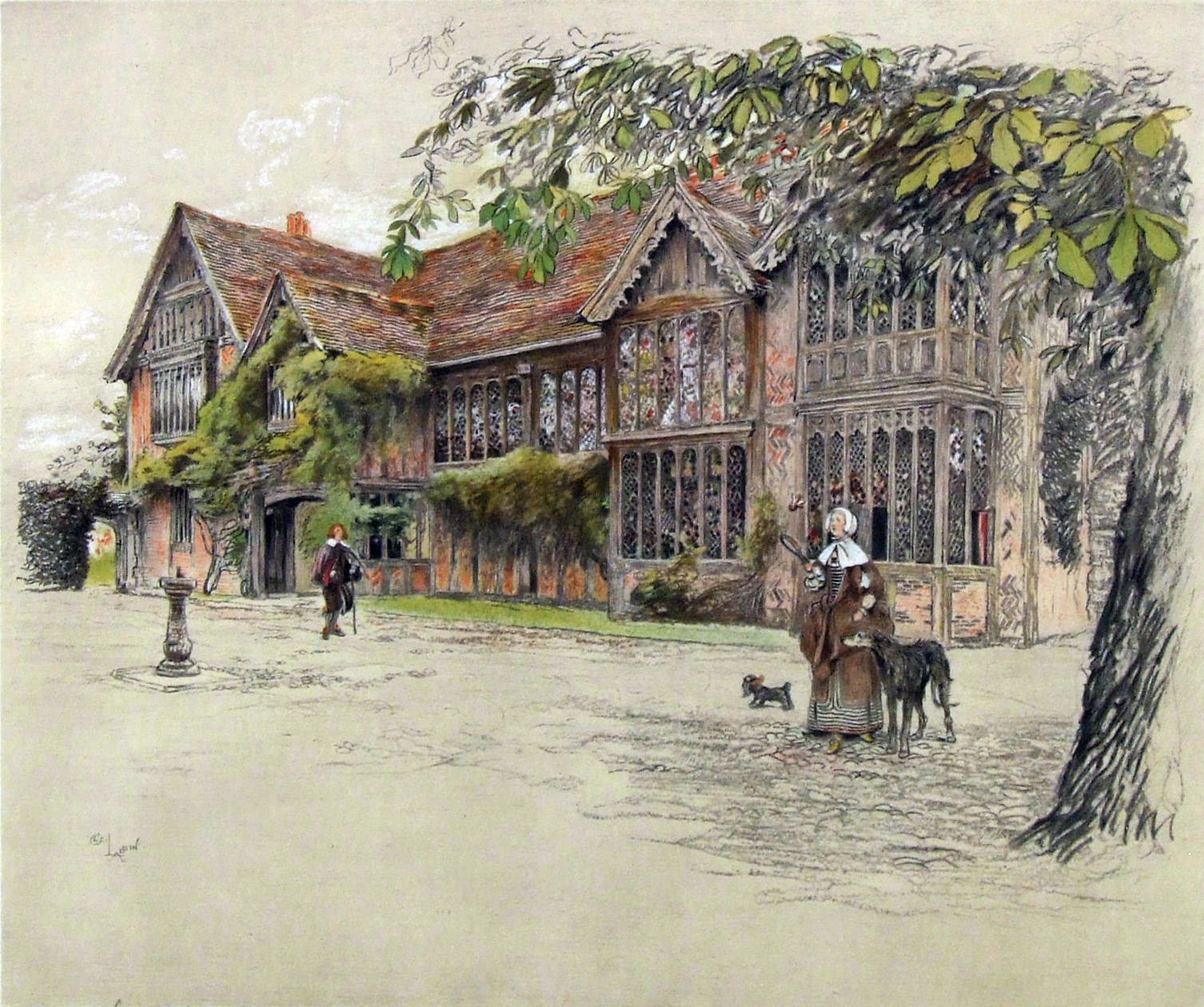 Cecil Aldin (1870-1935) - Artist's proof colour lithograph - "Ockwells Manor, Berks", 13ins x 15.5ins, signed in pencil to margin , published by Eyre & Spottiswoode London.